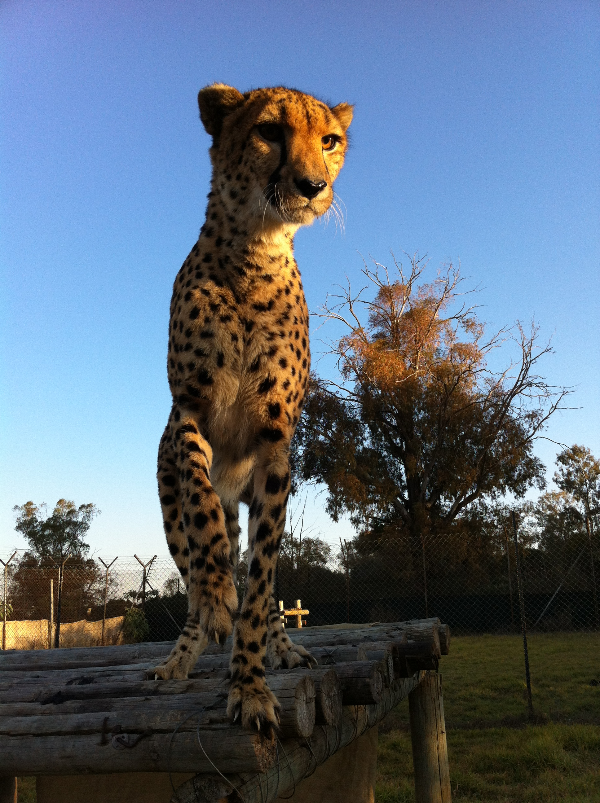 Tamed Cheetah in Lion Park, Johannesburg, South Africa